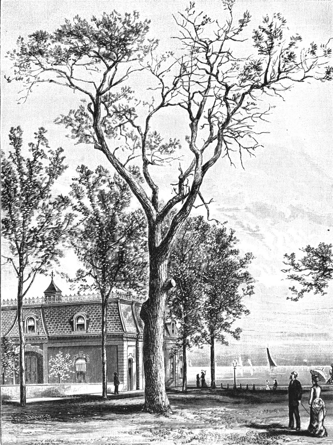 Engraving showing the cottonwood tree supposed to have marked the location of the start of the Battle of Fort Dearborn in 1812.